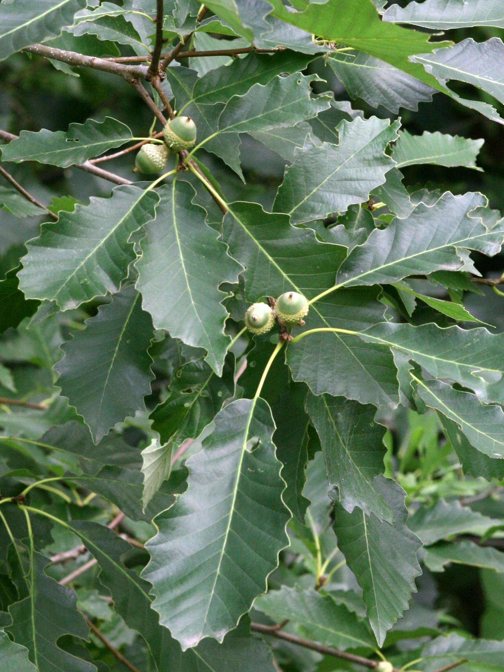 Quercus muehlenbergii, Arboretum in Brno, Czech Republic